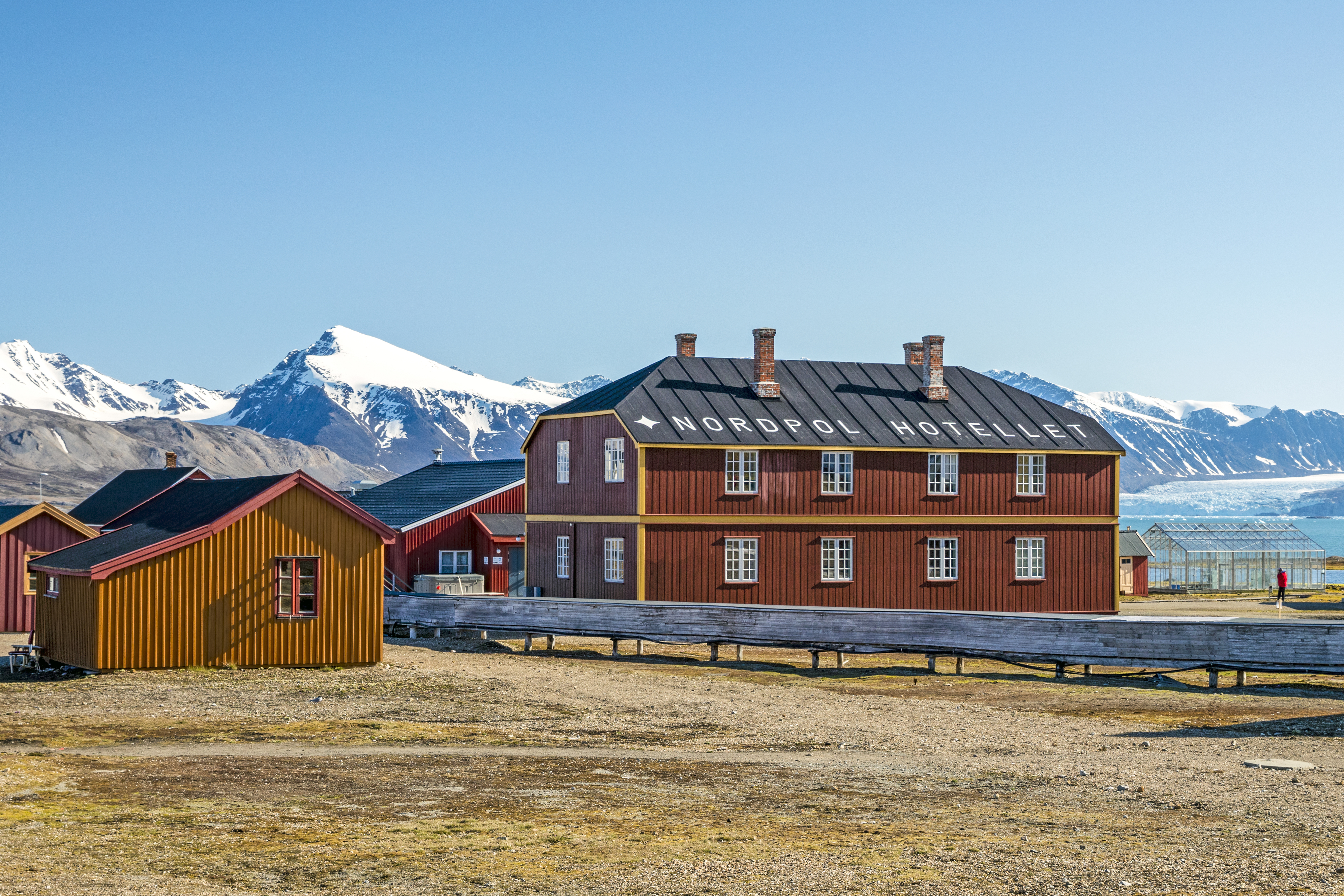 North Pole Hotel (Nordpolhotellet), Ny-Ålesund, Svalbard